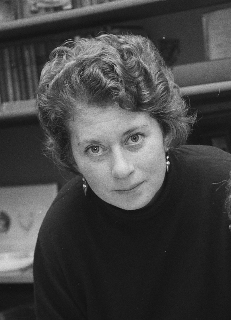 Lotte Hellinga-Querido in Amsterdam, 1966